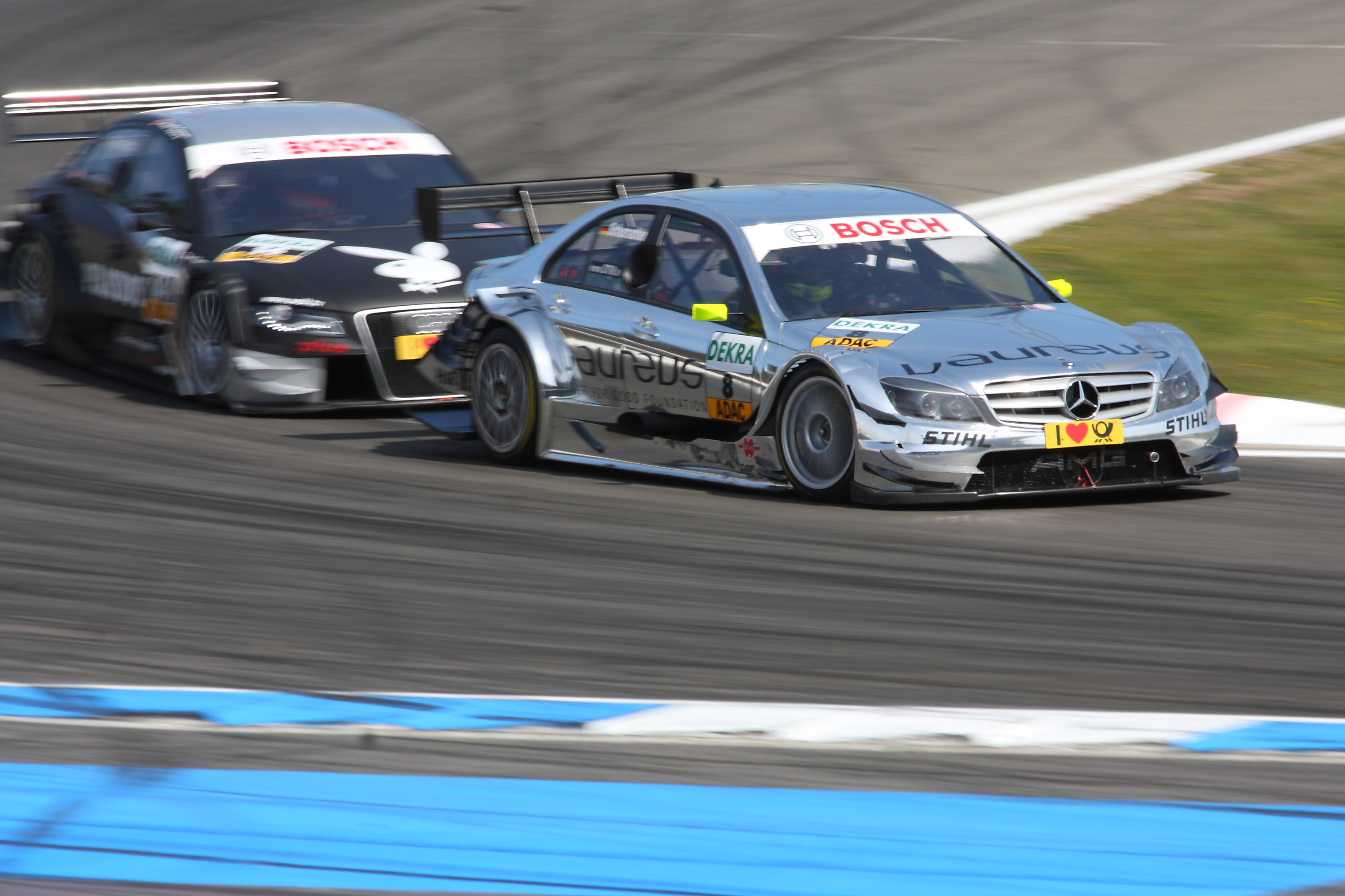 DTM-race on the Hockenheimring 2010, Ralf Schumacher in a DTM Mercedes